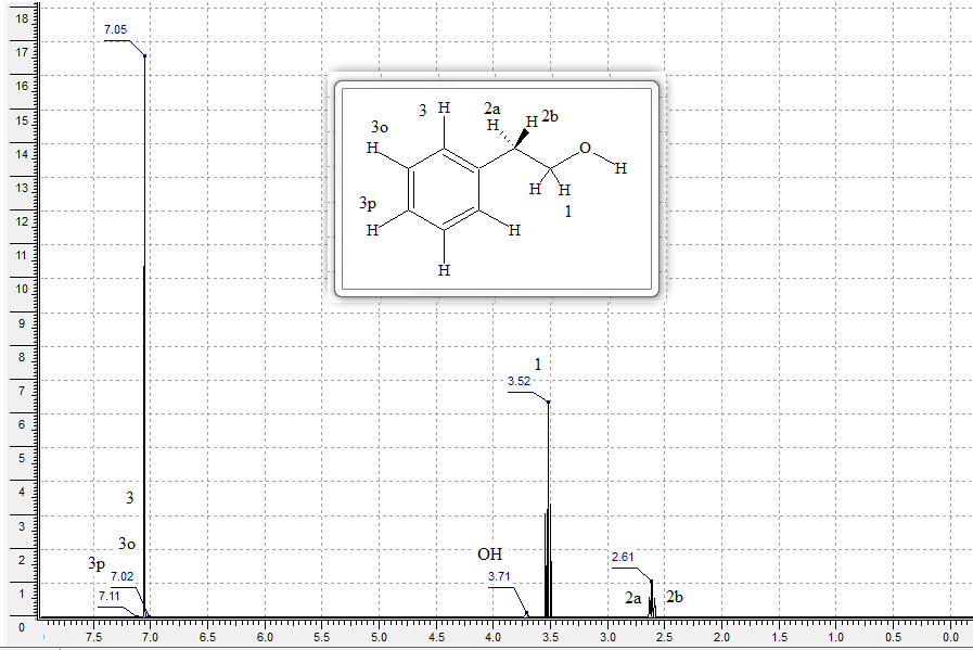 1H-NMR of phenetyl alcohol